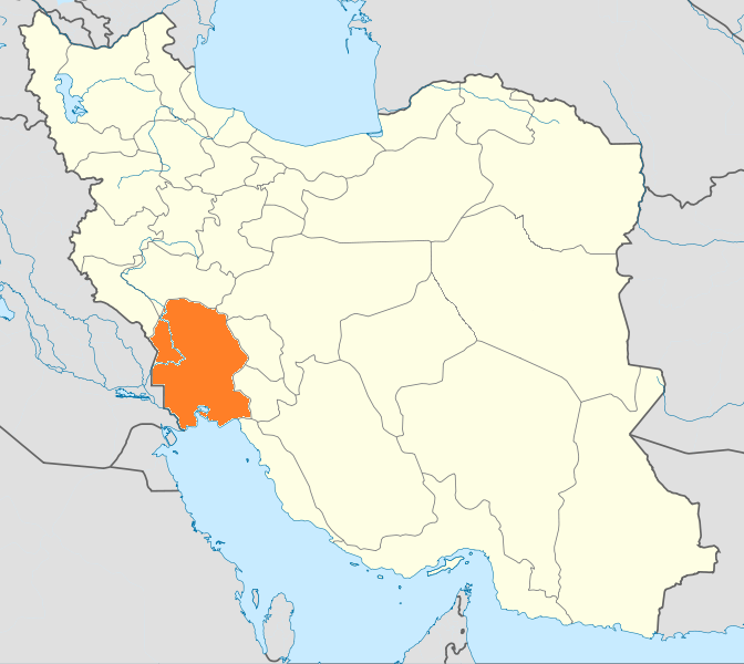 Locator map of Khuzestan Province — western Iran.